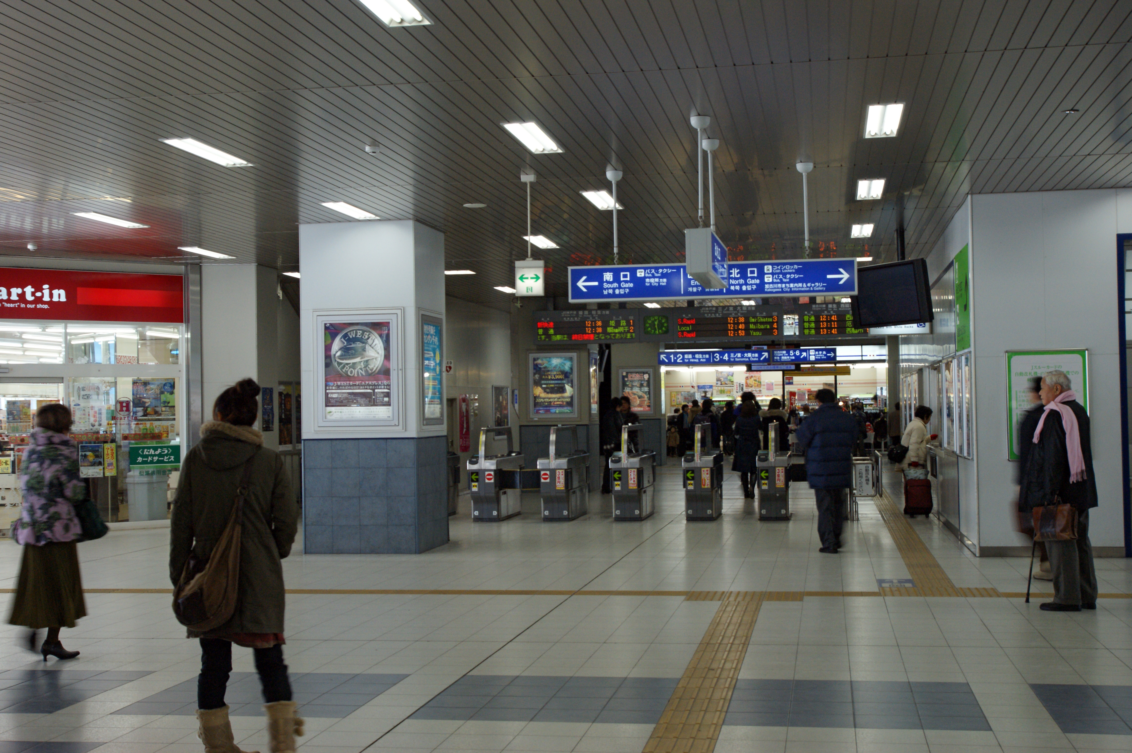 Kakogawa Station, Kakogawa, Hyogo prefecture, Japan